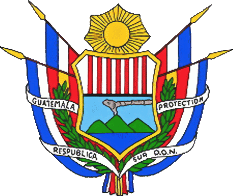 Arms of Guatemala 1858